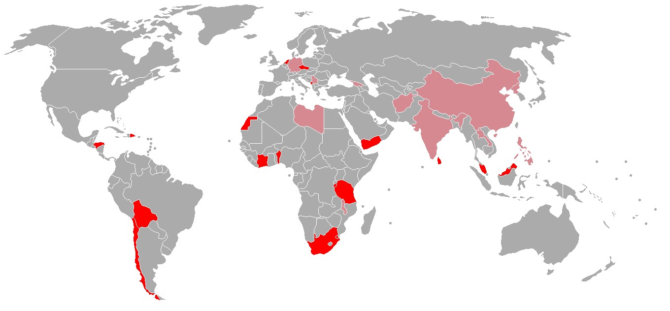 This map includes both present and historical countries with multiple capital cities.